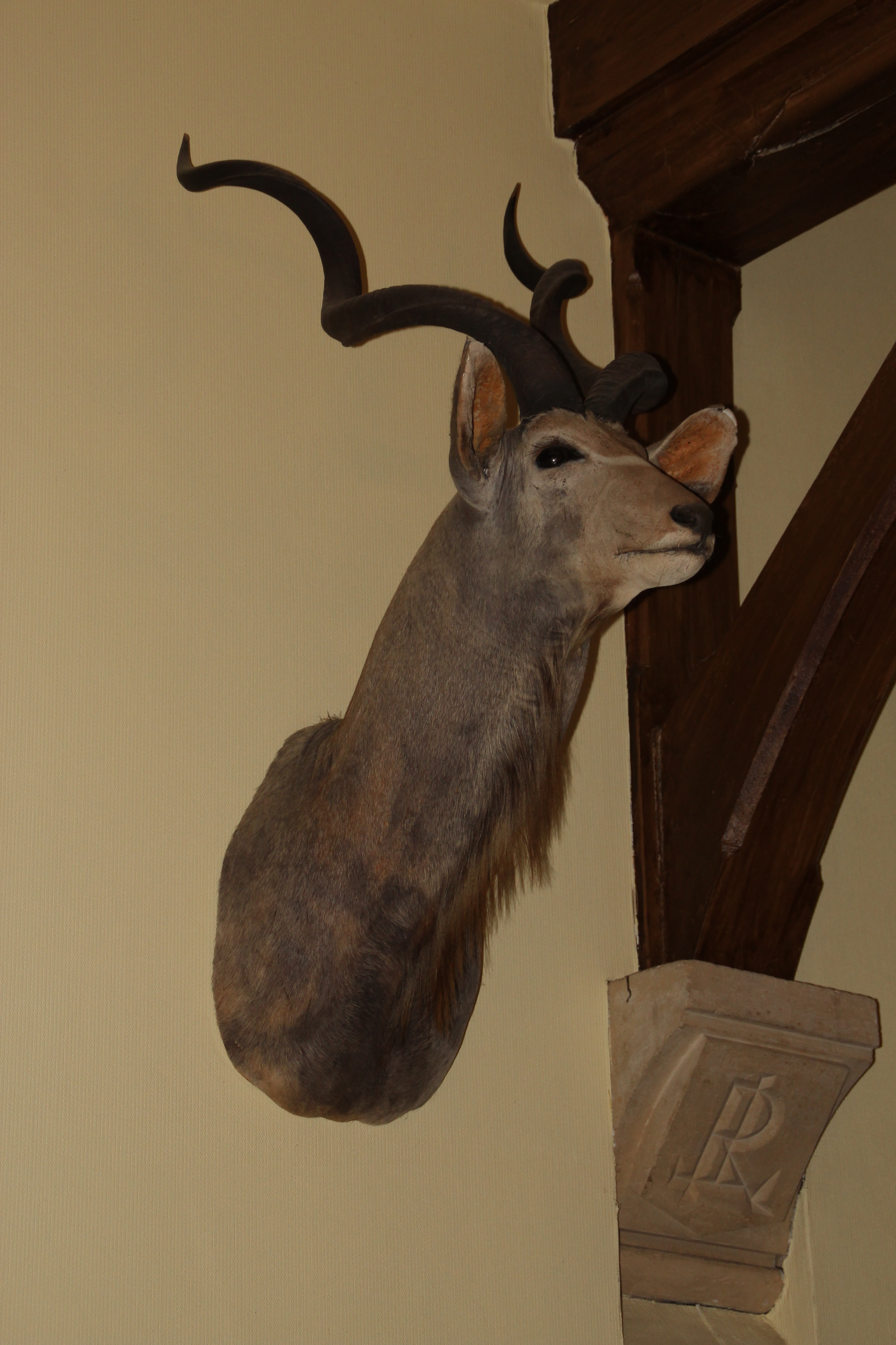 Castle of Dampierre-en-Yvelines, France